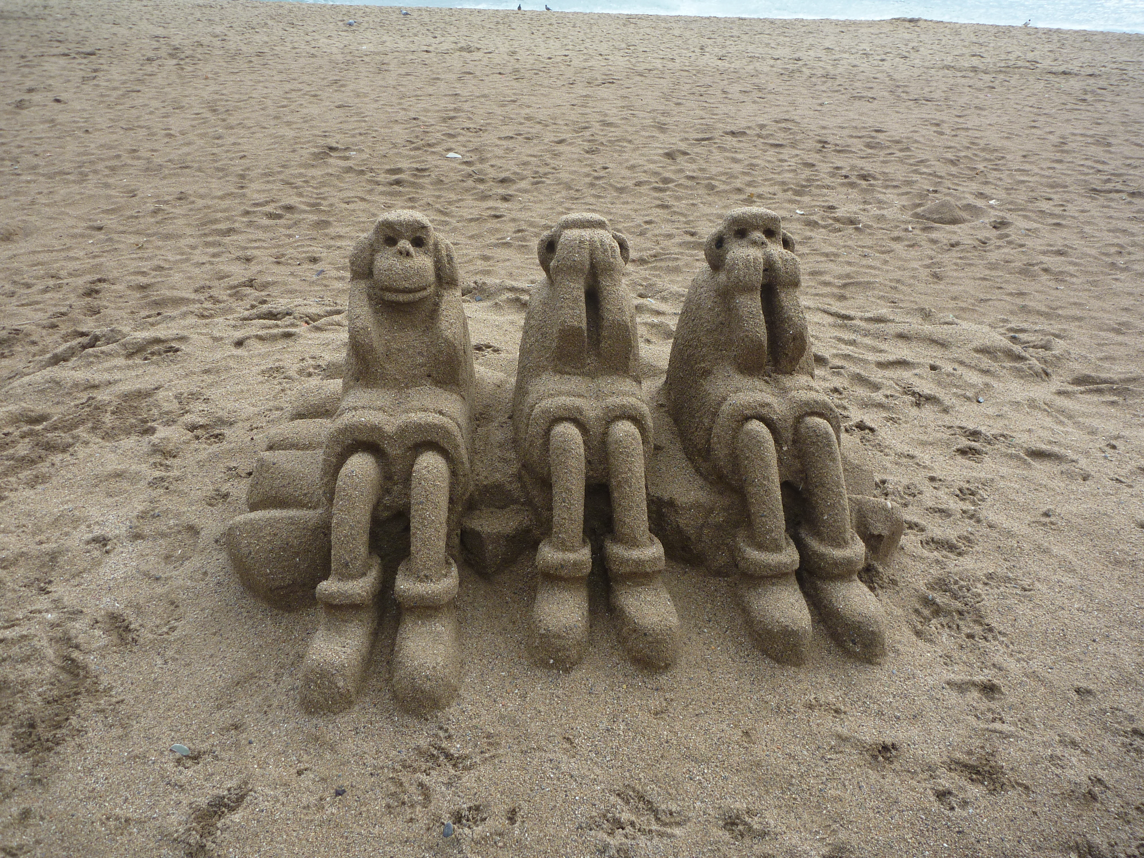 Three Wise Monkeys at Barceloneta Beach